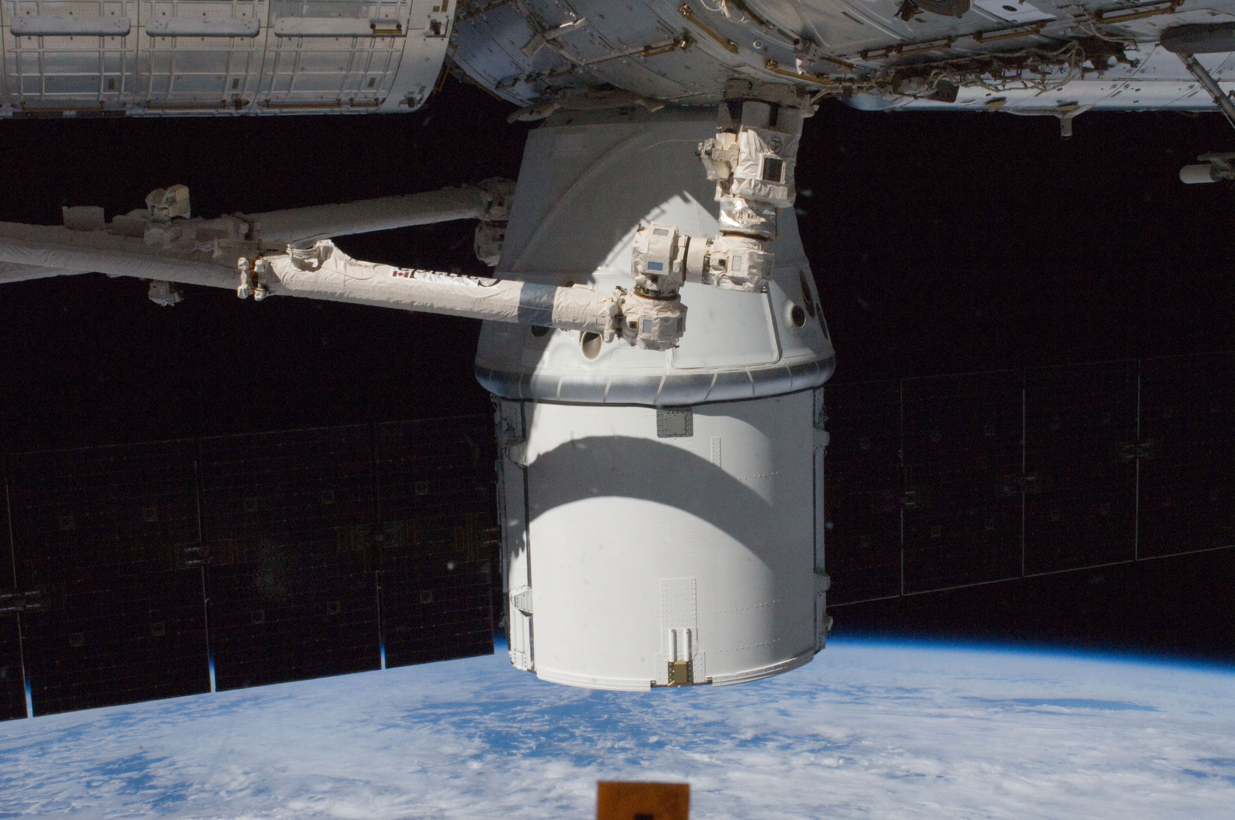 The SpaceX Dragon commercial cargo craft is berthed to the Earth-facing side of the International Space Station's Harmony node. Working from the robotics workstation inside the seven-windowed Cupola, Japan Aerospace Exploration Agency astronaut Aki Hoshide, Expedition 33 flight engineer, with the assistance of NASA astronaut Sunita Williams, commander, captured Dragon at 6:56 a.m. (EDT) and used the Canadarm2 robotic arm to berth Dragon to Harmony Oct. 10, 2012. Dragon is scheduled to spend 18 days attached to the station. During that time, the crew will unload 882 pounds of crew supplies, science research and hardware from the cargo craft and reload it with 1,673 pounds of cargo for return to Earth. After Dragon's mission at the station is completed, the crew will use Canadarm2 to detach Dragon from Harmony and release it for a splashdown about six hours later in the Pacific Ocean, 250 miles off the coast of southern California. Dragon launched atop a Falcon 9 rocket at 8:35 p.m. Oct. 7 from Cape Canaveral Air Force Station in Florida, beginning NASA's first contracted cargo delivery flight, designated SpaceX CRS-1, to the station.